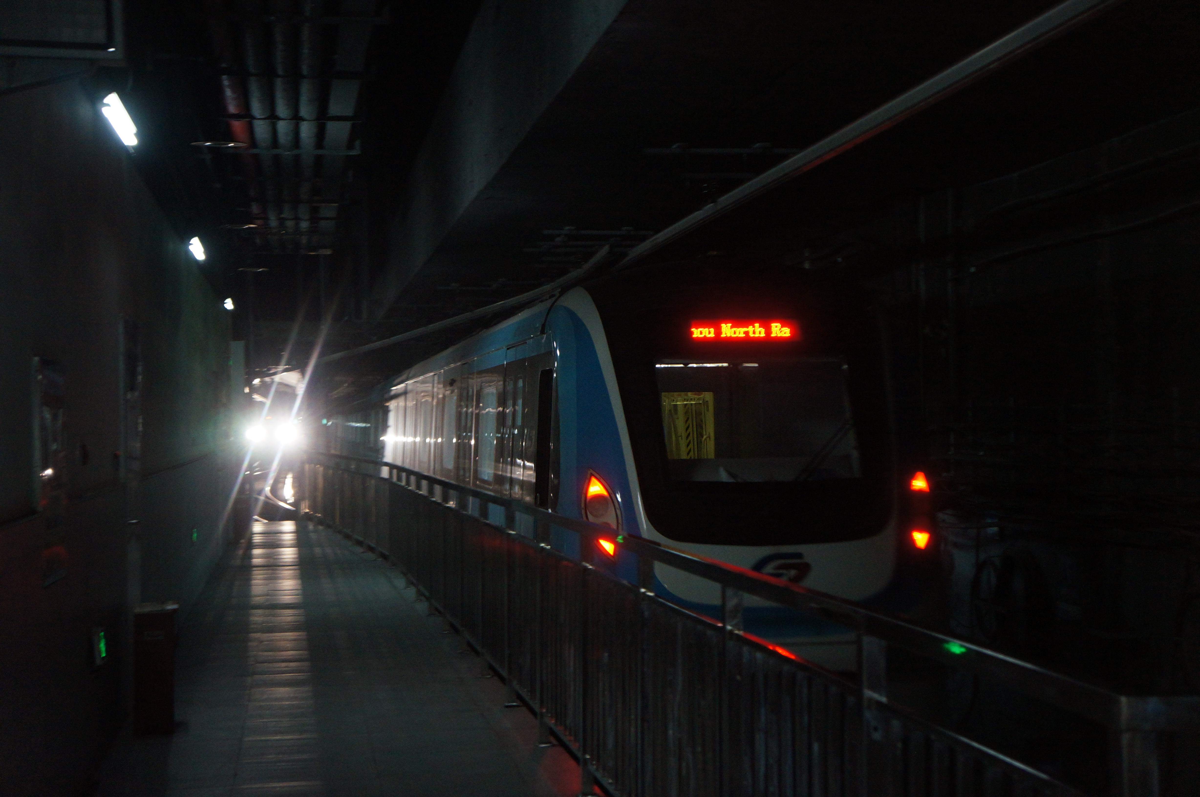 201609 SRT L2 vehicle departs from Suzhou North Railway Station